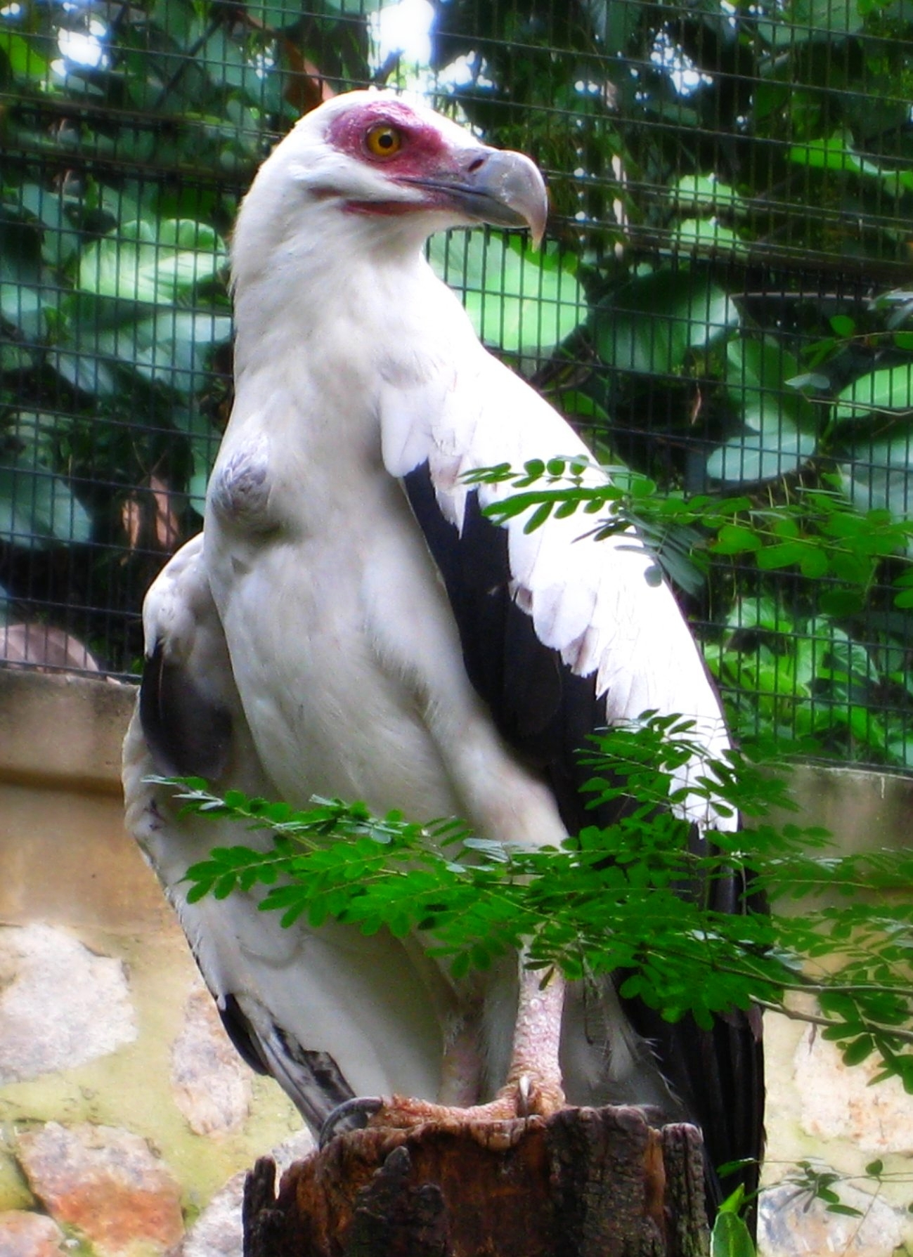 A Palm-nut Vulture Gypohierax angolensis at Jurong Bird Park, Singapore.